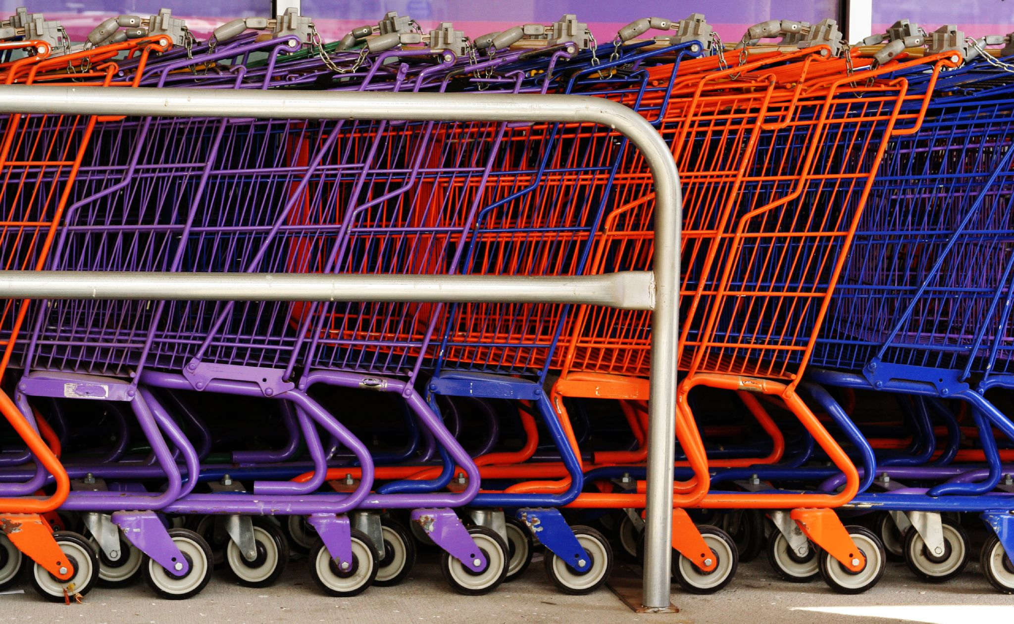 A row of shopping carts.